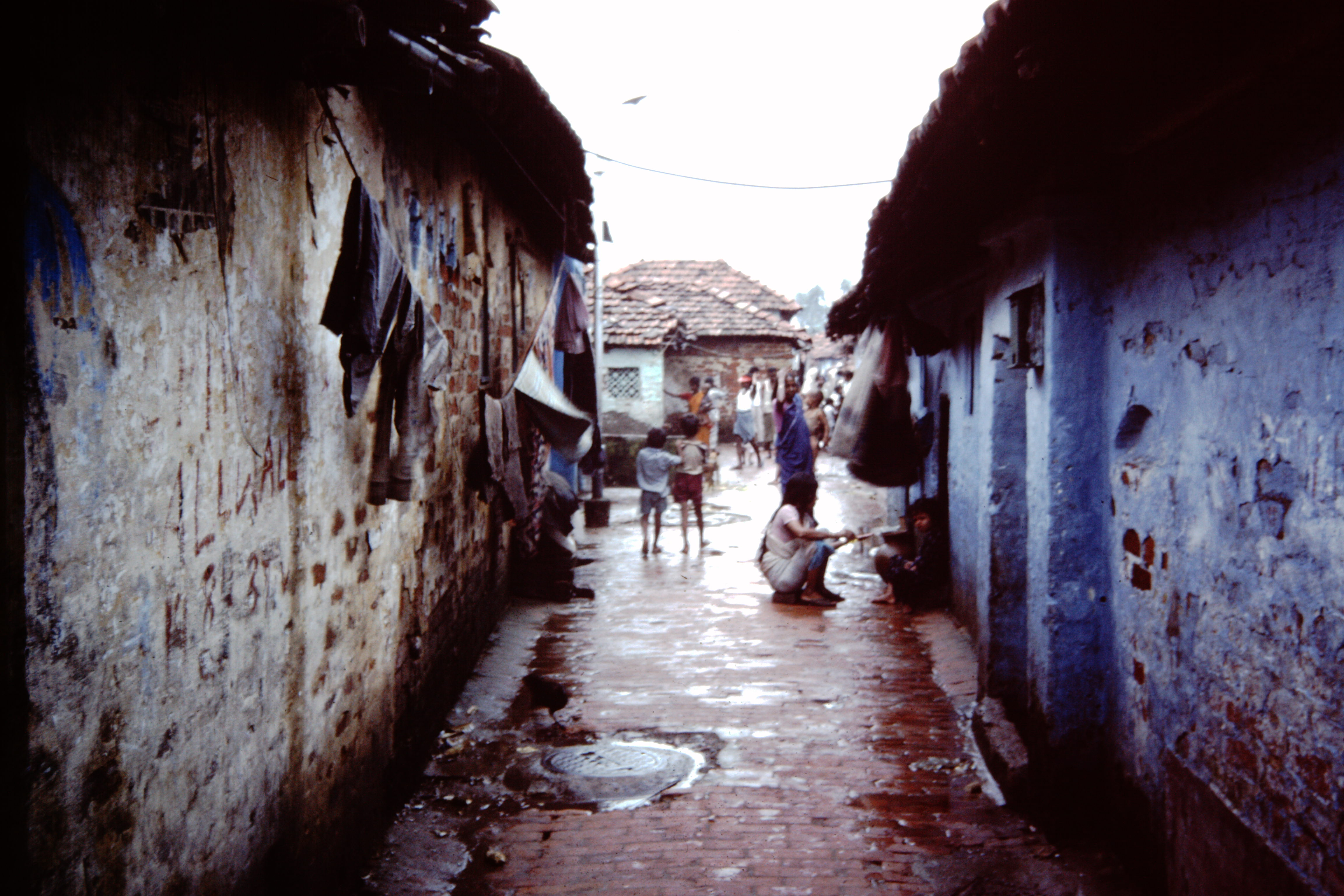 Alley with brick walls, children, Kolkata (Calcutta) slum, India